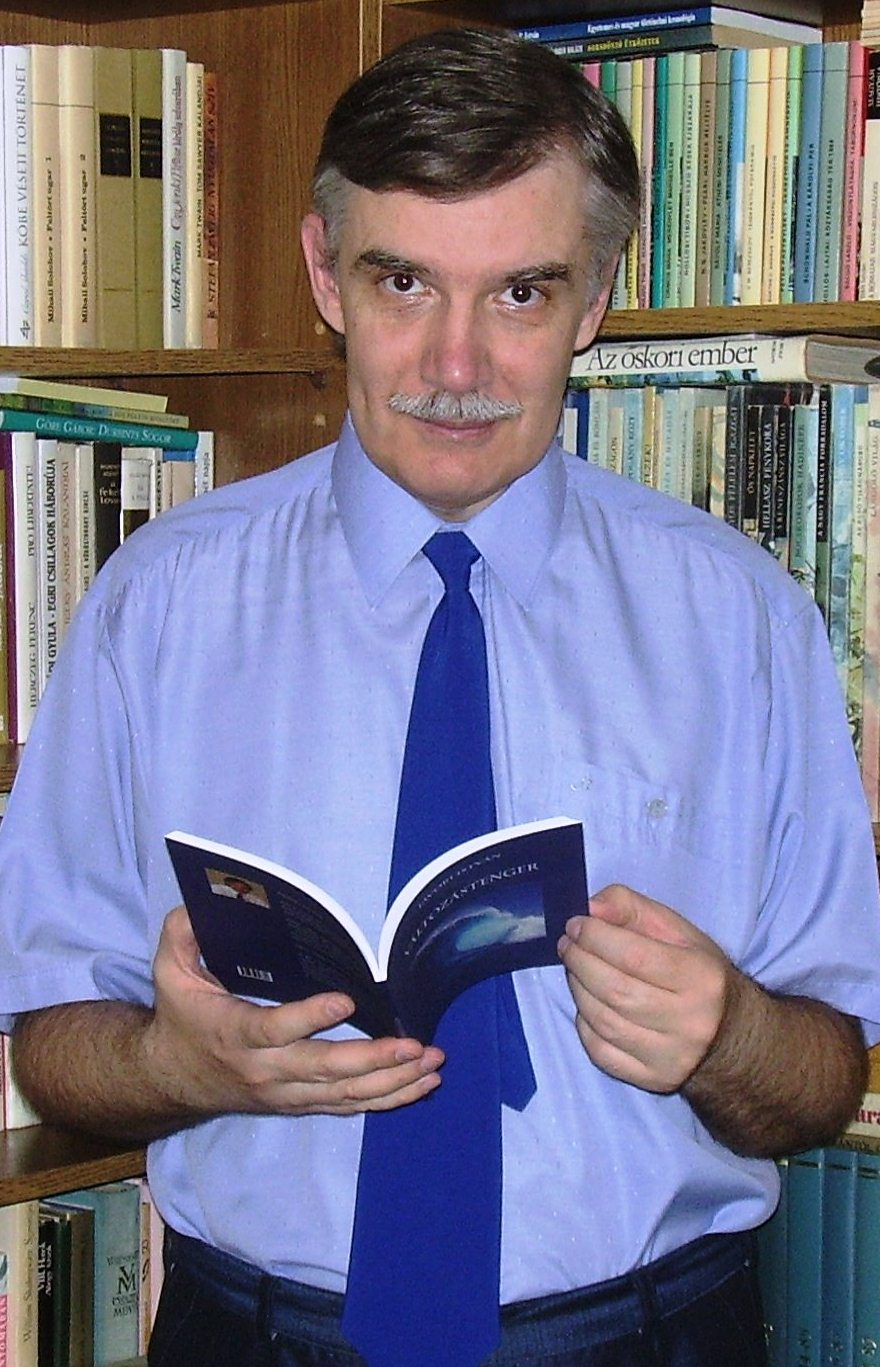 István József Jávori (2008)